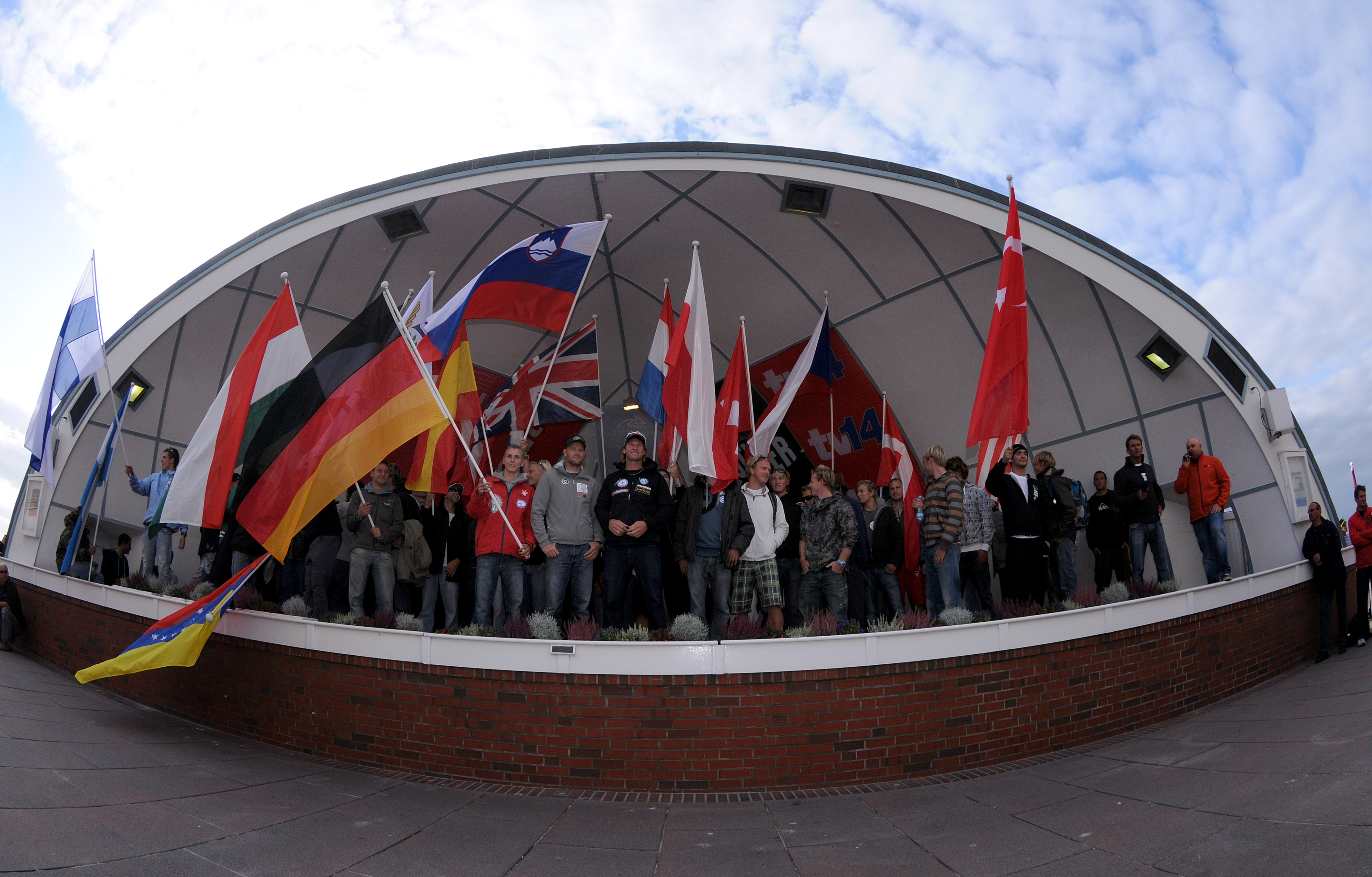 Official Start, Windsurf World Cup Sylt 2009